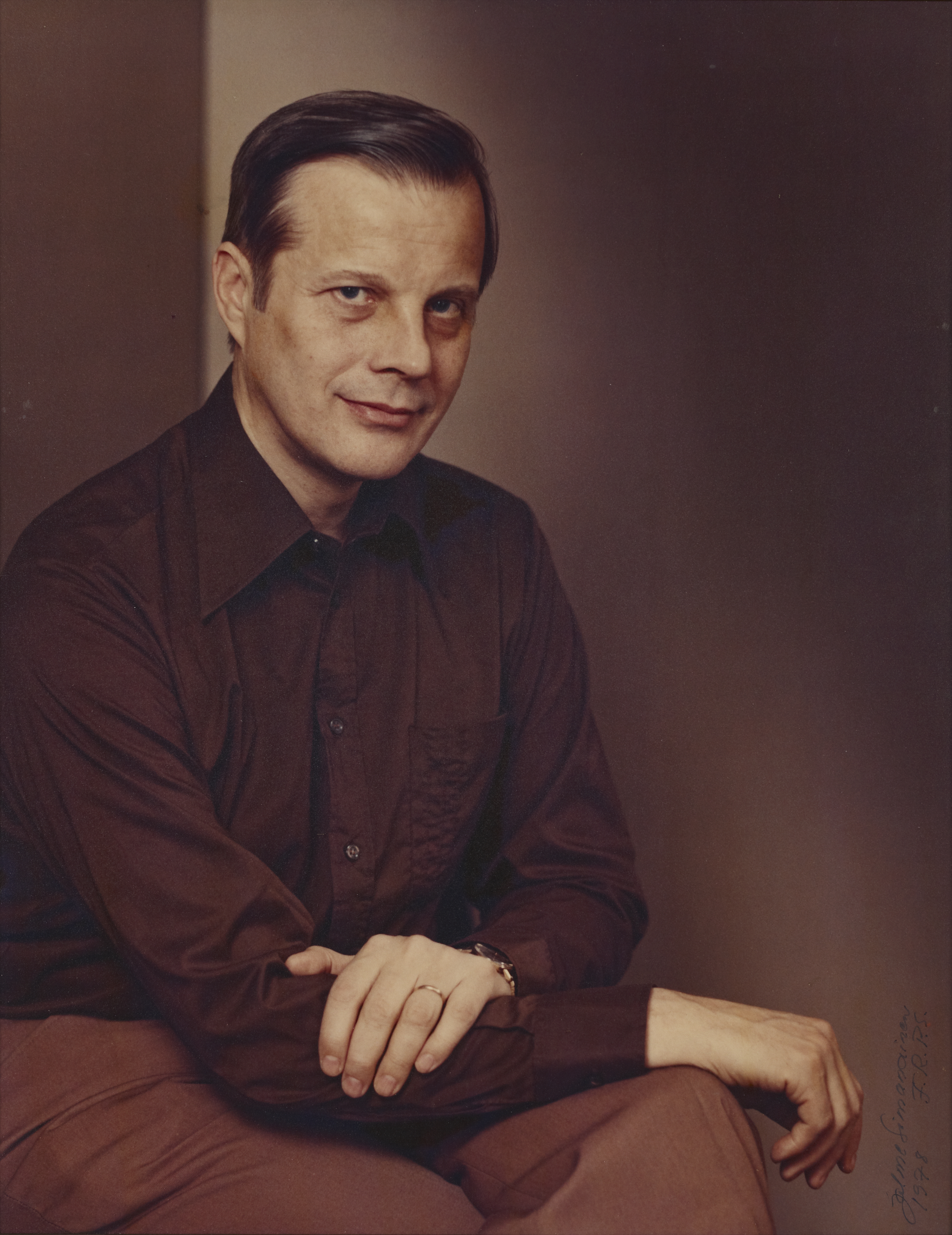 Photograph of the Finnish communication theorist and member of parliament Osmo A. Wiio (1928–2013).